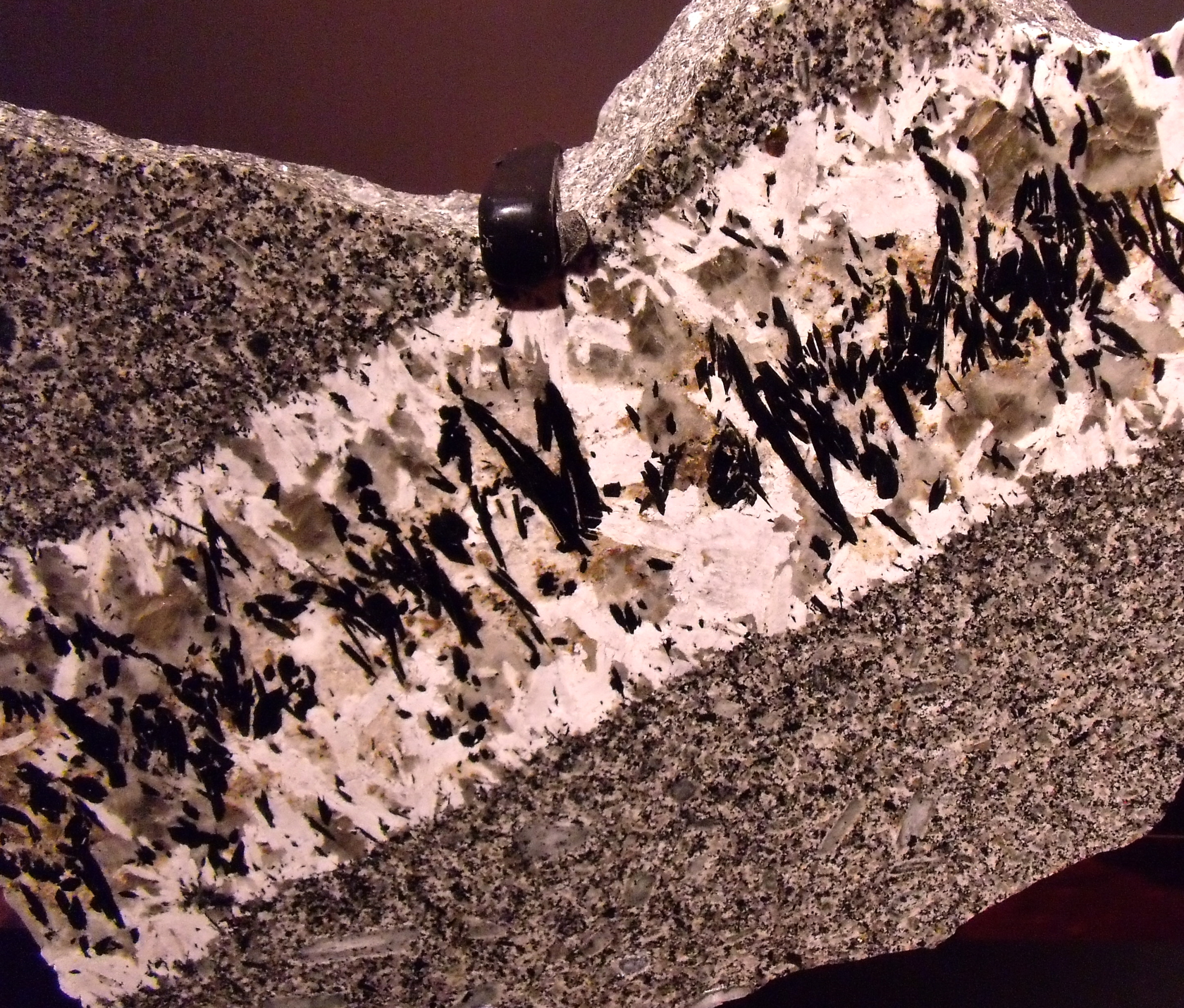 Feldspar and Quartz are the two most common minerals in the Earth's crust. Here, Tourmaline adds a touch of class. Coarse-grained grey quartz + white feldspar + black tourmaline pegmatite crosscutting what appears to be a fine-grained to porphyritic diorite, Canadian Museum of Nature, Ottawa, Ontario, Canada Pegmatites have the ability to collect a bunch of elements, making them the "garbage cans" of the Earth. Complex, zoned pegmatites in Brazil, California, Maine and elsewhere are mined for mineral specimens and gemstones. However, quartz-feldspar-mica pegmatite is by far and away the most typical intrusion. For a fabulous flickr foto introduction to rocks, do have a look at my Geology ABCs gallery